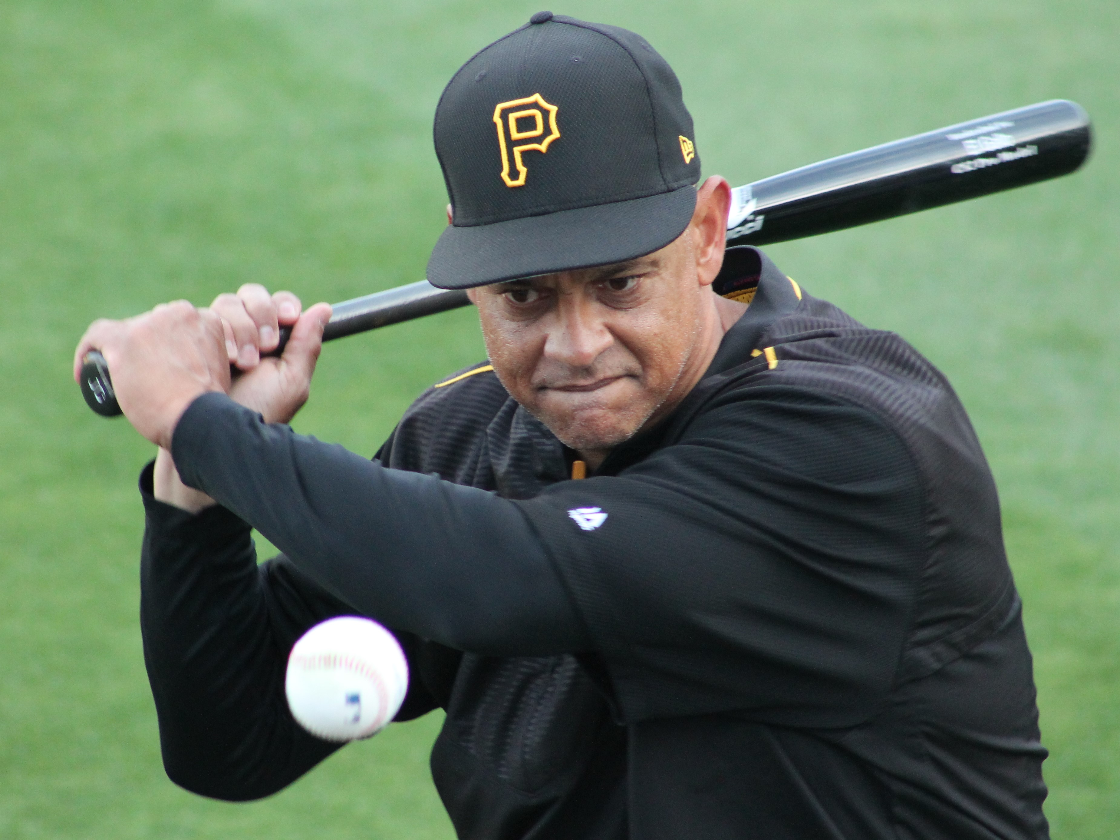 Professional baseball coach Joey Cora with the Pittsburgh Pirates in May 2017.